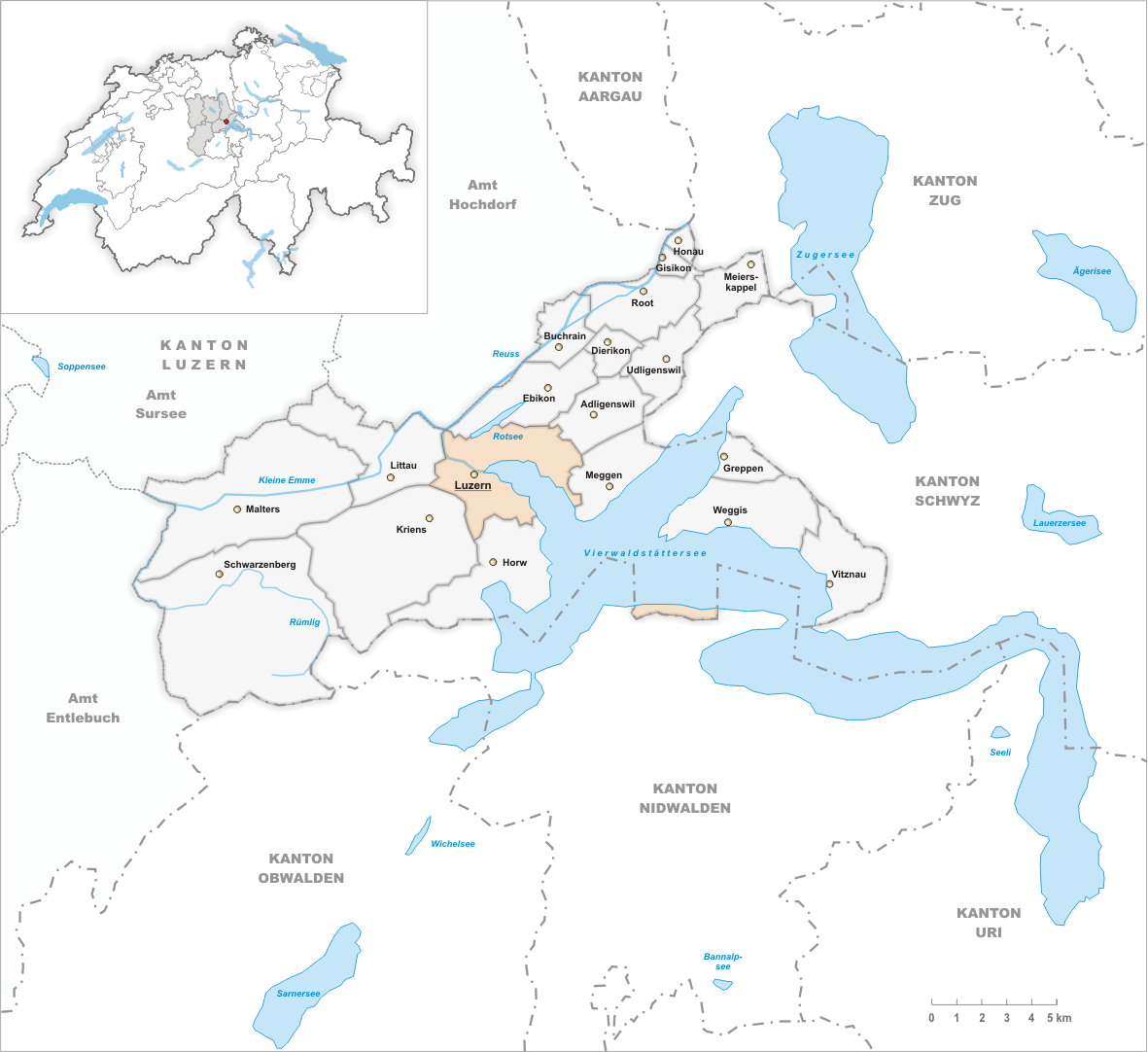 Municipality Luzern